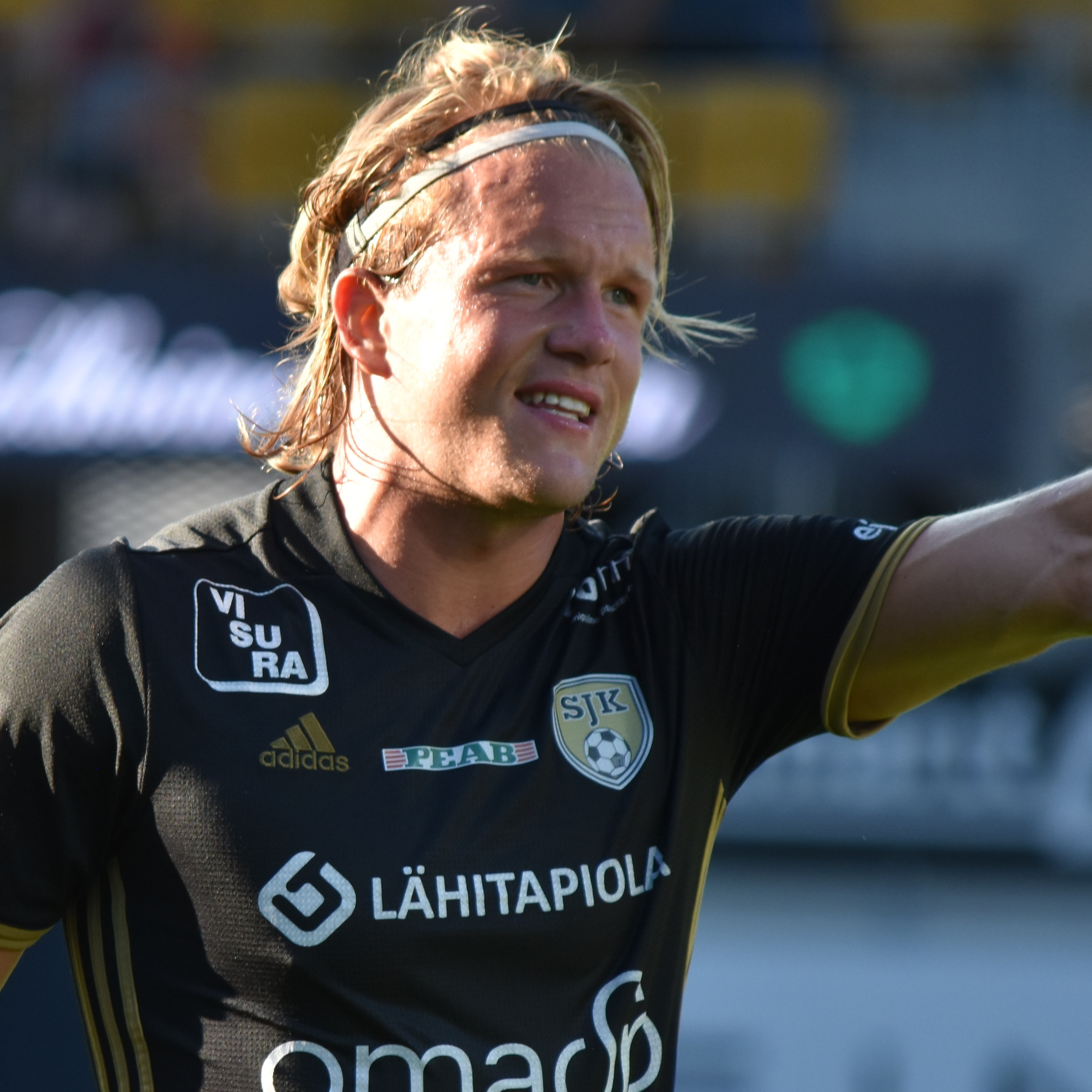 Association football player Anders Bååth (SJK)